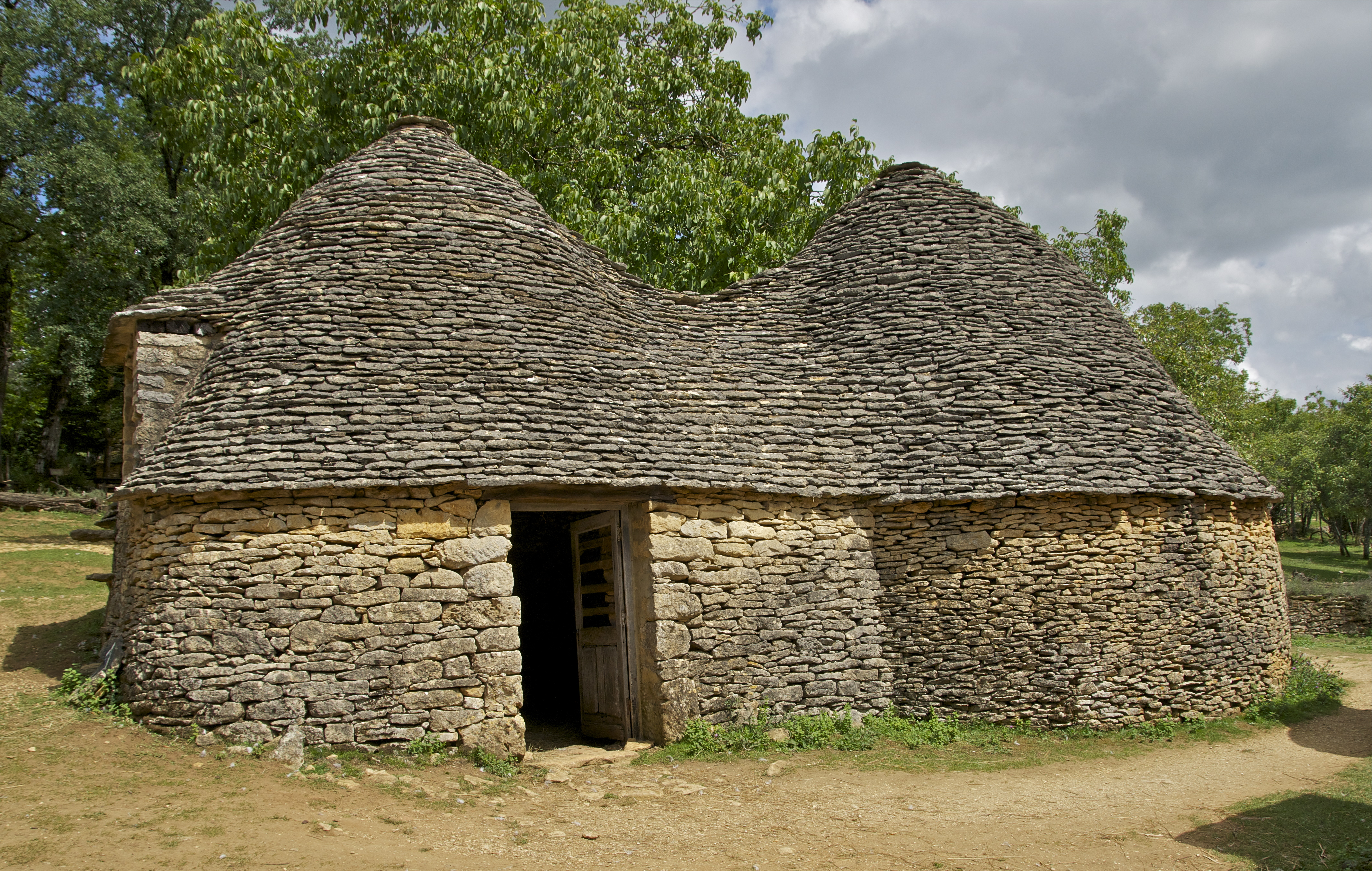 Cabanes du Breuil at the place known as Calpalmas in Saint-André-d'Allas, Dordogne, France. "Group 1".